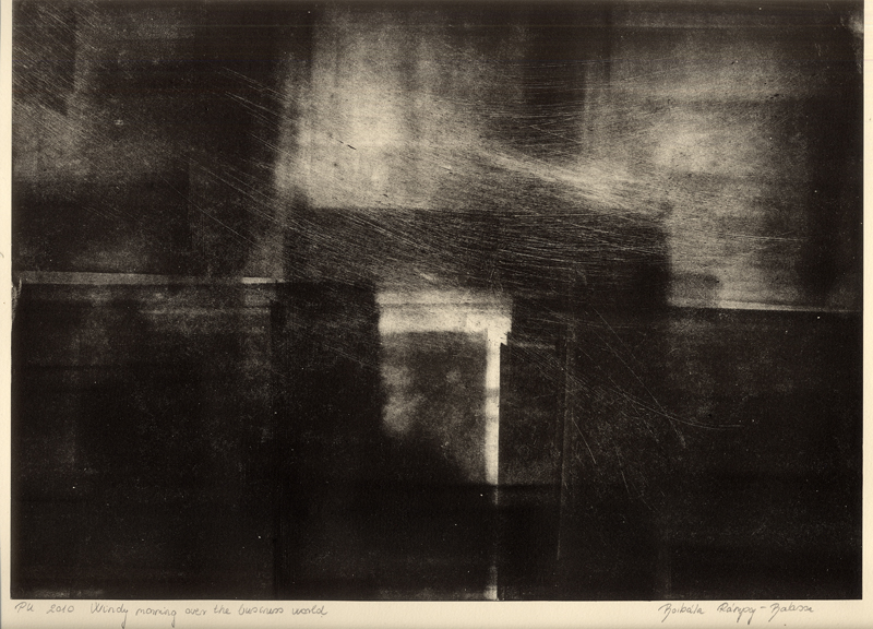 Monotype.